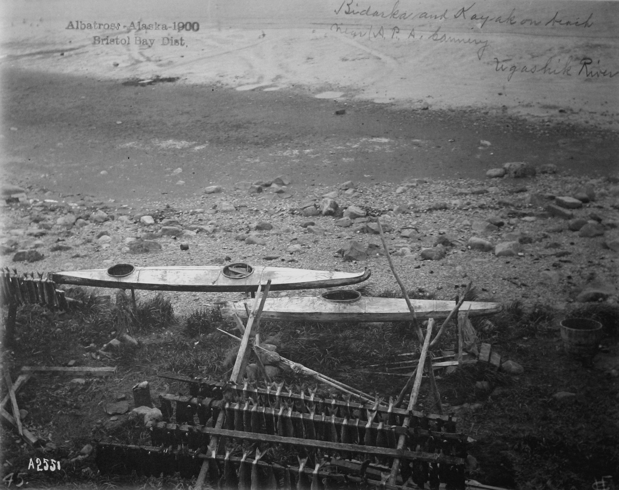 Bristol Bay district, Alaska. Bidarka and kayak on beach near A.P.A. cannery, Ugashik River. The rack in the foreground appears to hold drying fish fillets, probably salmon. Credit: Gulf of Maine Cod Project, NOAA National Marine Sanctuaries; Courtesy of National Archives